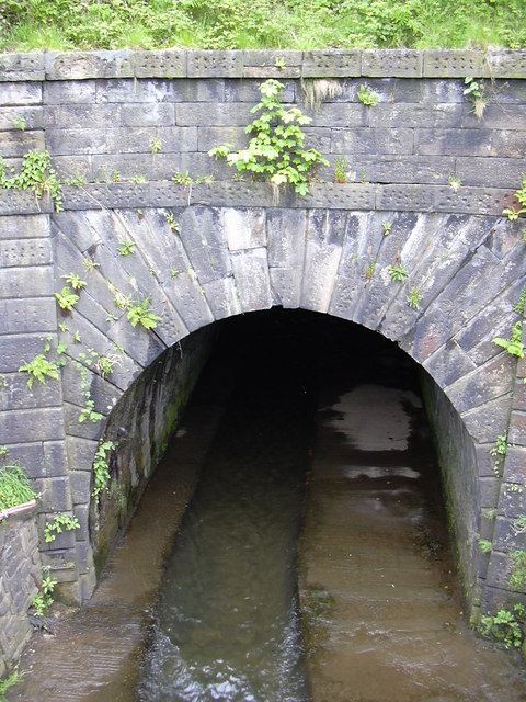 Culvert beneath the Leeds Liverpool Canal